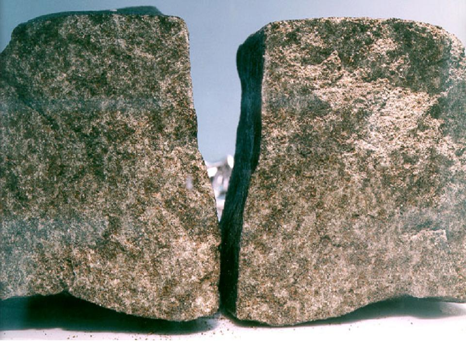 Nakhla meteorite (BM1913,25) inside surfaces after breaking in 1998. NASA photo # S98-04014. Multiple fragments of the Nakhla meteorite were seen to fall as a shower in the hamlets surrounding the village of El-Nakhla, El-Baharîya in Egypt (near Alexandria) on June 28th, 1911 at 9:00 a.m. Dr. W. F. Hume, Director of the Geological Survey of Egypt, personally visited the site and collected both the evidence of eyewitnesses of the fall and about a dozen specimens including the largest known fragments. It is recognized that it originated from the planet Mars.